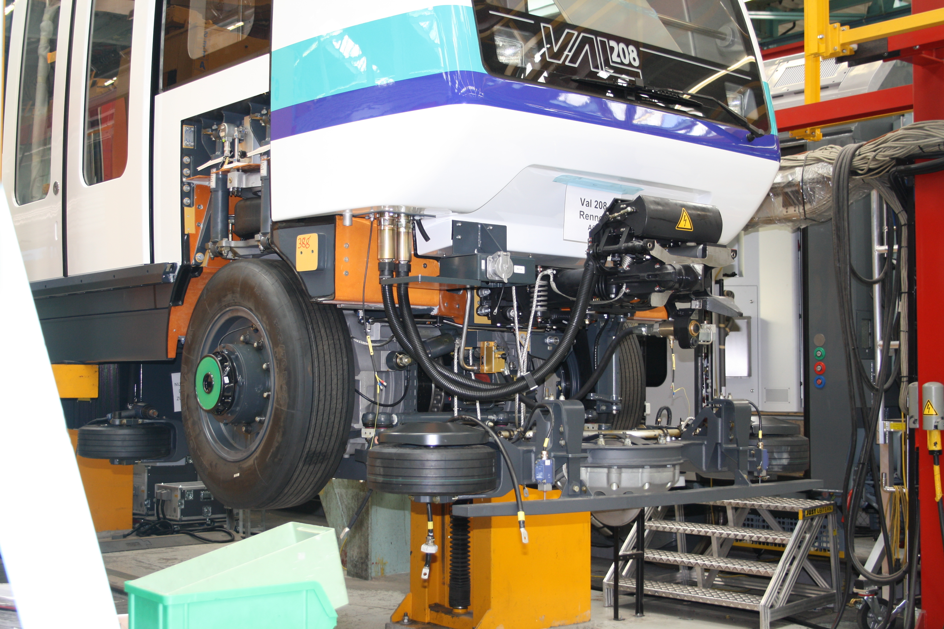 Bogie for train type VAL 208